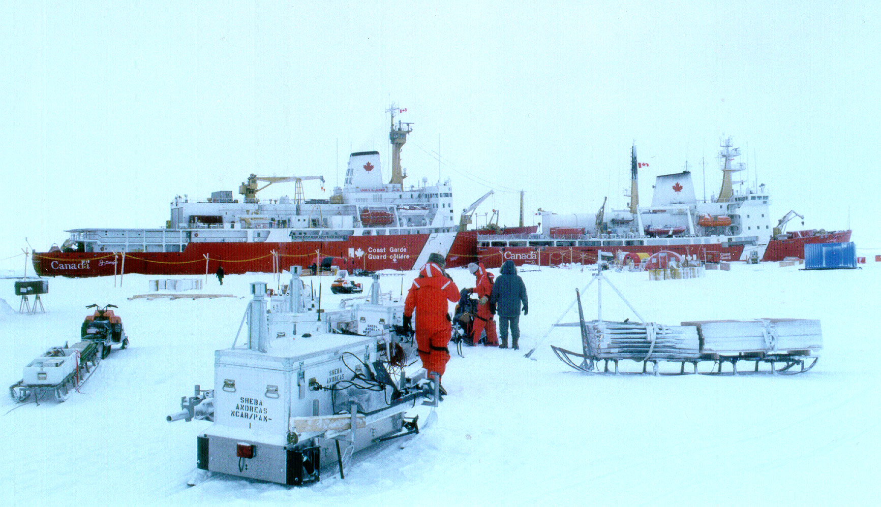 The Canadian Ice Breaker, Des Groseilliers (right with CCGS Louis S. St-Laurent), was the base station for the year-long Surface Heat Budget of the Arctic Ocean (SHEBA) experiment conducted in the Arctic Ocean from October 1997 to October 1998 to provide polar input to global climate models.